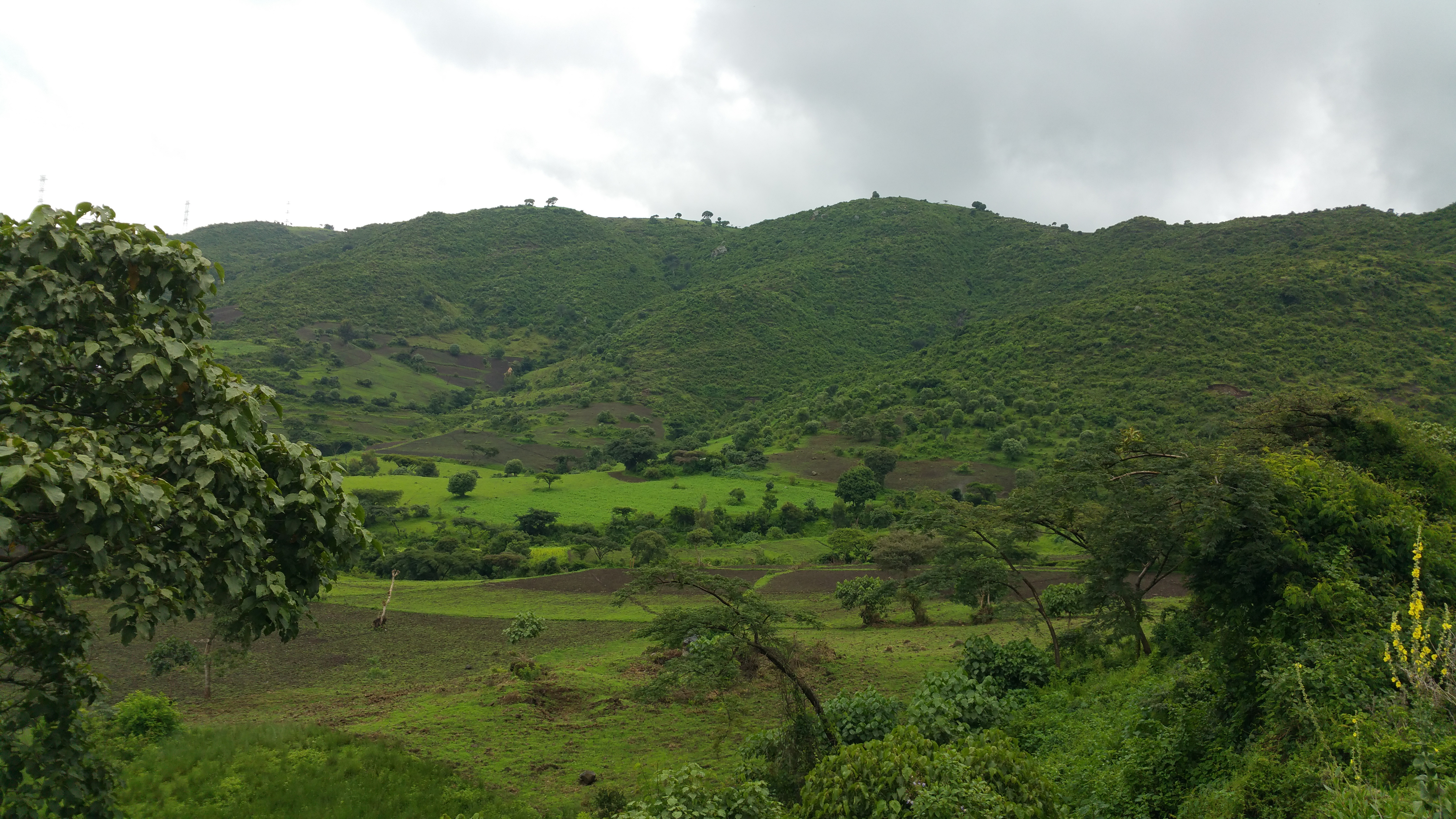 Ethiopian Green season(term commonly used by tourists) or Rainy Season, May to October you will see a beautiful green farm land every where. So, this picture is taken from Eastern Ethiopia, Oromia region since my trip from Addis Ababa to my birth place Dembi Dollo. This is an image of "African people at work" from Ethiopia